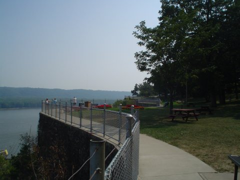 This is the river walk at Eagle Point Park in Dubuque, Iowa. I took this picture in September of 2005. Jesster79 01:39, 15 September 2005 (UTC)